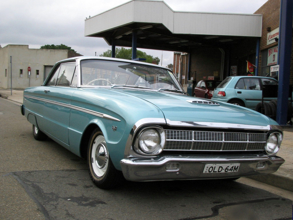 Unlike previous Australian Falcons, the XM represented a significant departure from the contemporary US Ford Falcon models in terms of exterior styling.